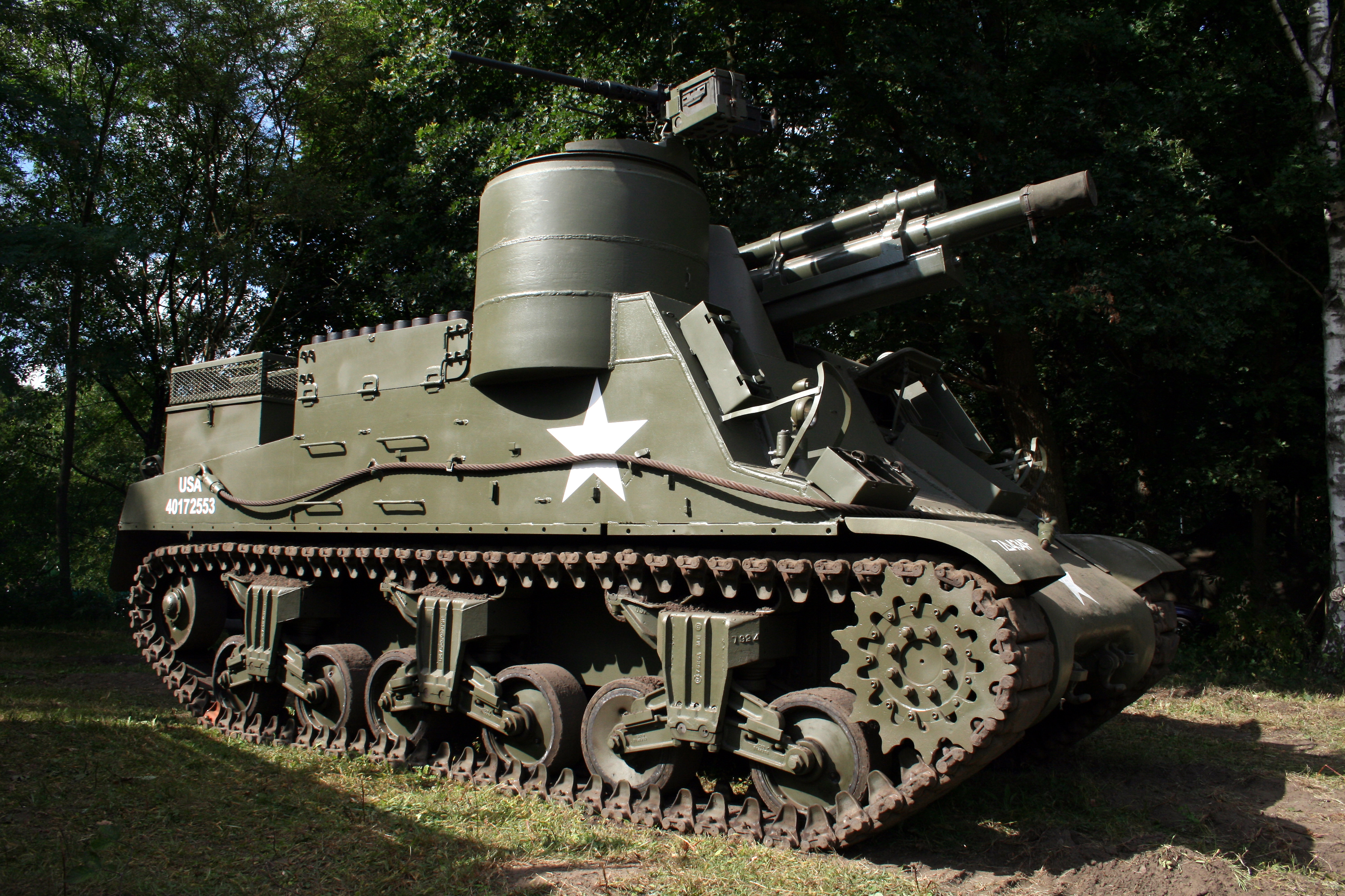 Self-propelled artillery vehicle M7 Priest - 105 mm Howitzer Motor Carriage M7.